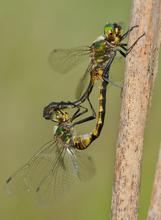 Somatochlora flavomaculata Cordulie à taches jaunes